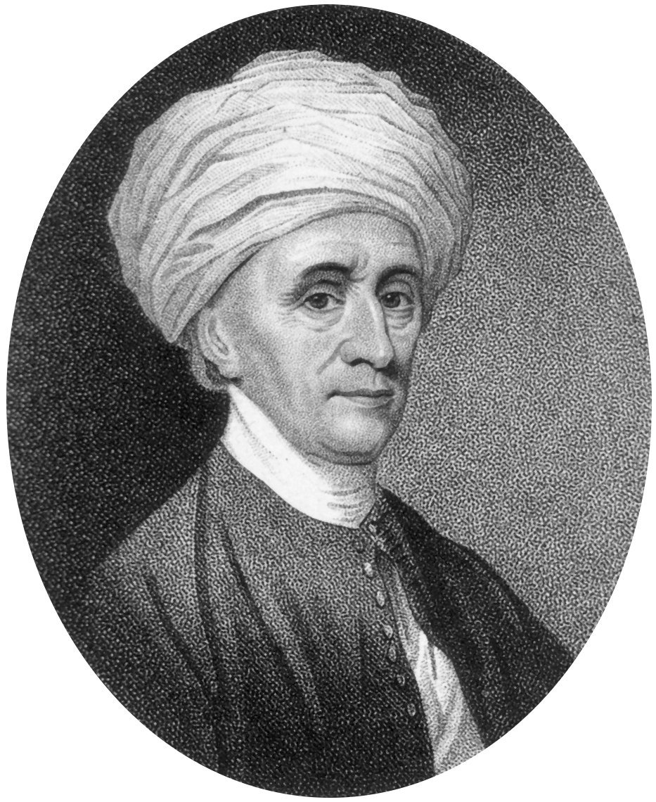 Russell, Patrick 1726-1805